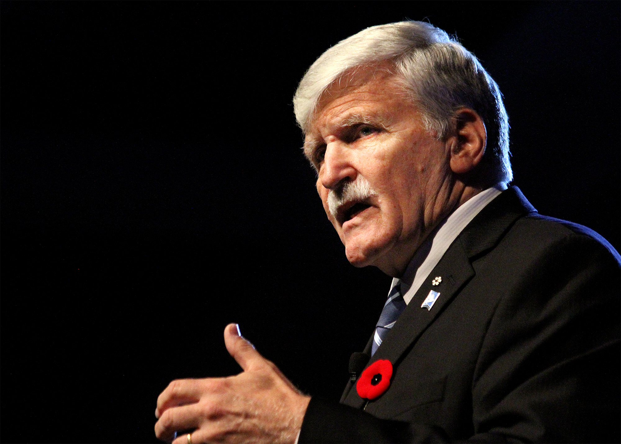 General Romeo Dallaire speaking in 2017.